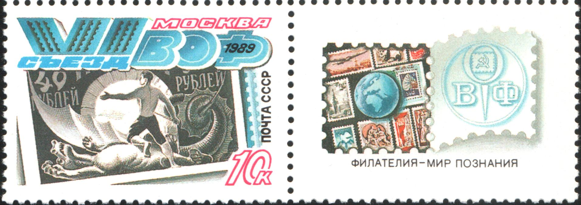 Stamp of the USSR " 6th congress of the All-Union Society of philatelists (13-14,10). (1989, August 9. Fig. Levinovski, [TSFA] of №6100). Image of the post stamp №7 of the first standard release of the RSFSR with the known allegoric figure " Освобожденный пролетарий" (Proletary freed). Source: Catalog of the post stamps of the USSR 1989[ITTS] of " postage stamp", 1990